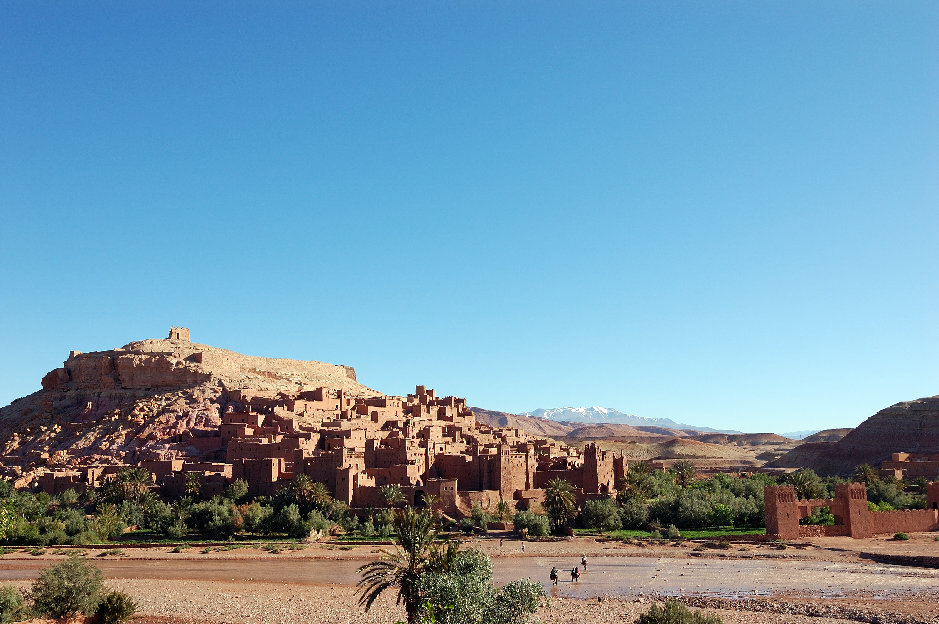 Aït Benhaddou ksar, Morocco.